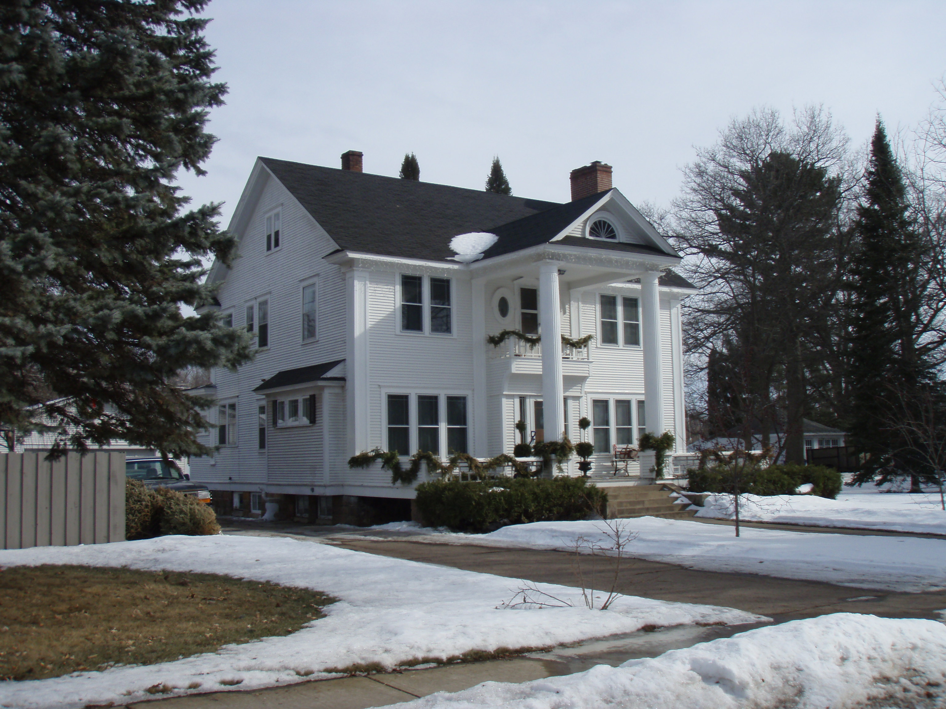 Oscar Olson House in Braham, Minnesota, listed on the National Register of Historic Places.